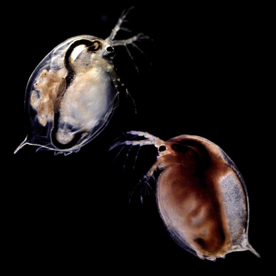 “The picture shows Daphnia magna, the largest representative of the genus Daphnia, small freshwater crustaceans (also known as water fleas), which are among the oldest model systems in biological research. Like any other organism, D. magna are constantly challenged by microorganisms trying to invade their body. One of these villains is Pasteuria ramosa, a bacterial parasite castrating its host after successful establishment. The comparison of a healthy (left) and a heavily infected (right, 30 days post infection) female under a stereomicroscope reveals the consequences of parasite invasion: while the uninfected animal holds developing neonates in its brood chamber, this chamber is empty in the infected animal. Note also, that the hemolymph of the infected female is filled with P. ramosa endospores, the transmission stages, hence the opaque instead of translucent appearance of infected compared to healthy females. After the death of the host, these spores will be released from the carcass and consequently be ingested by new hosts, completing the horizontal transmission and starting a new life cycle of P. ramosa.”